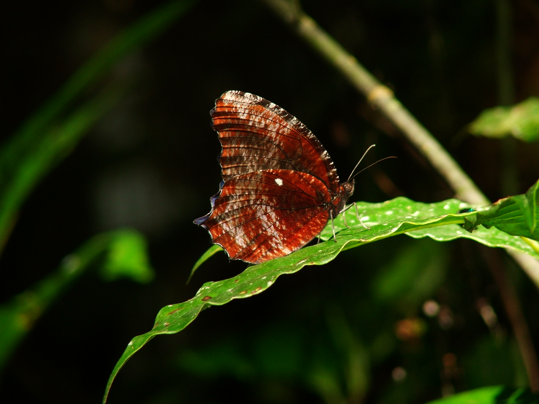 Clicked in Namdapha National Park, Arunachal Pradesh in November 2005. Many Thanks to Krushnamegh Kunte for the ID. - Rahul K. Natu